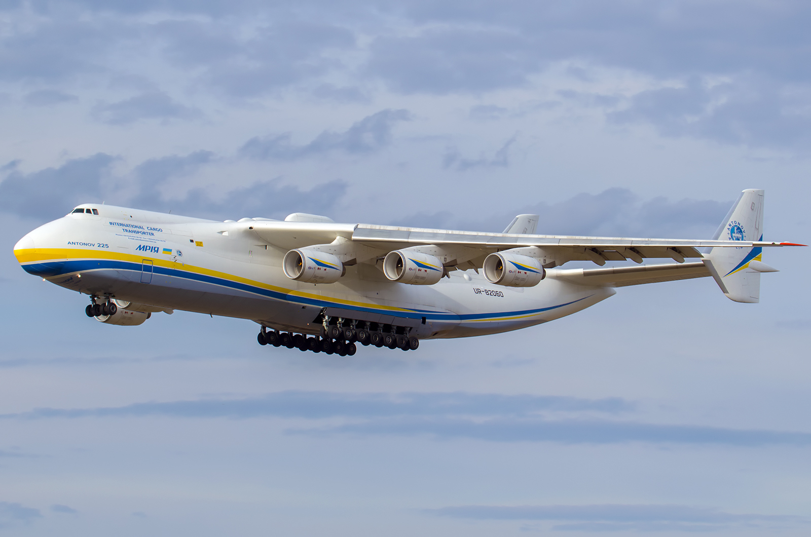 Antonov Design Bureau Antonov An-225 Mriya UR-82060 Leipzig Halle - Leipzig - (EDDP / LEJ)